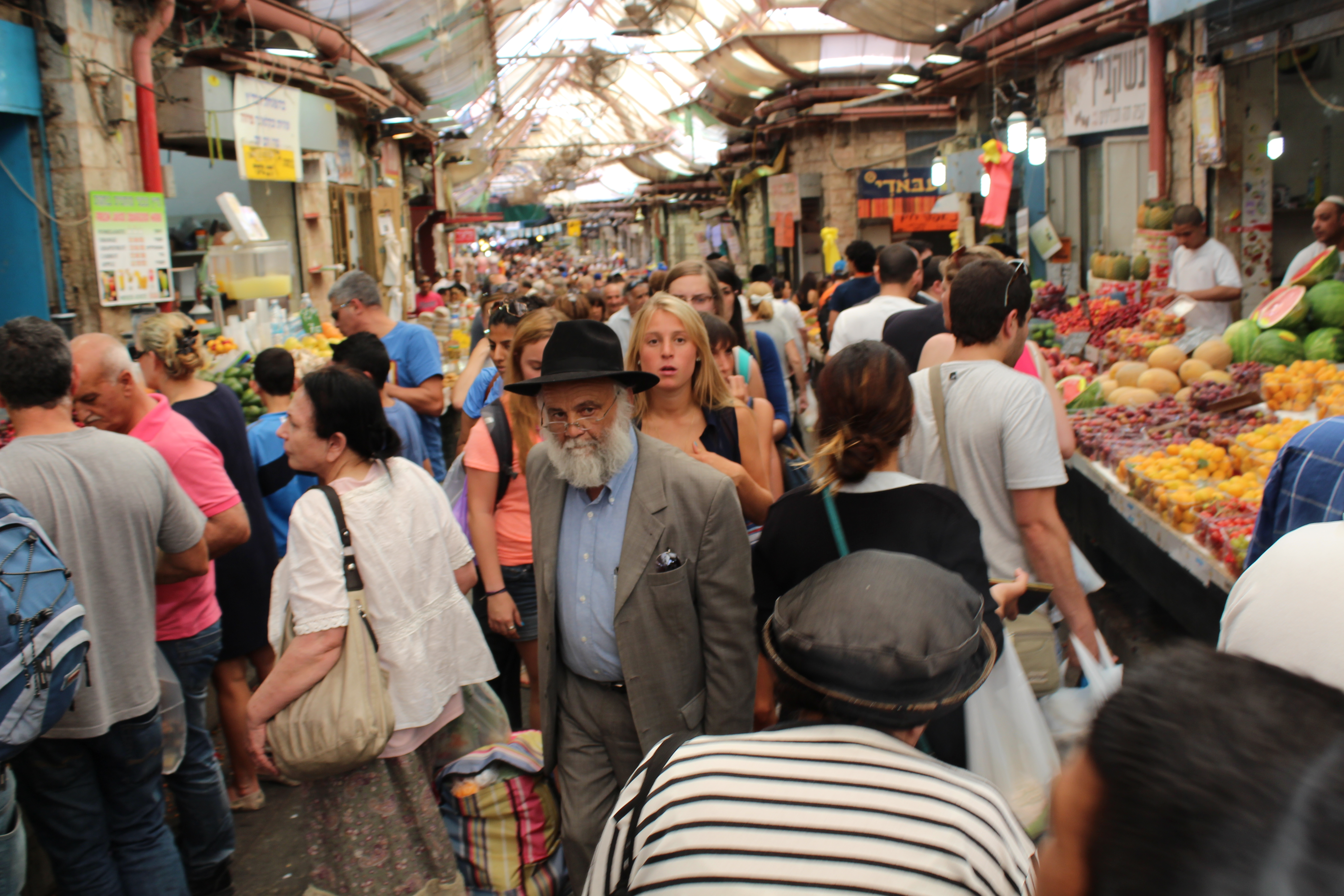 Mahane Yehuda Market, Jerusalem